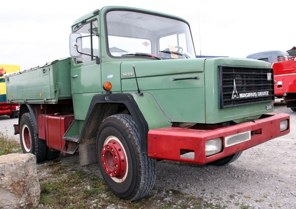 Photo of a Magirus-Deutz 310